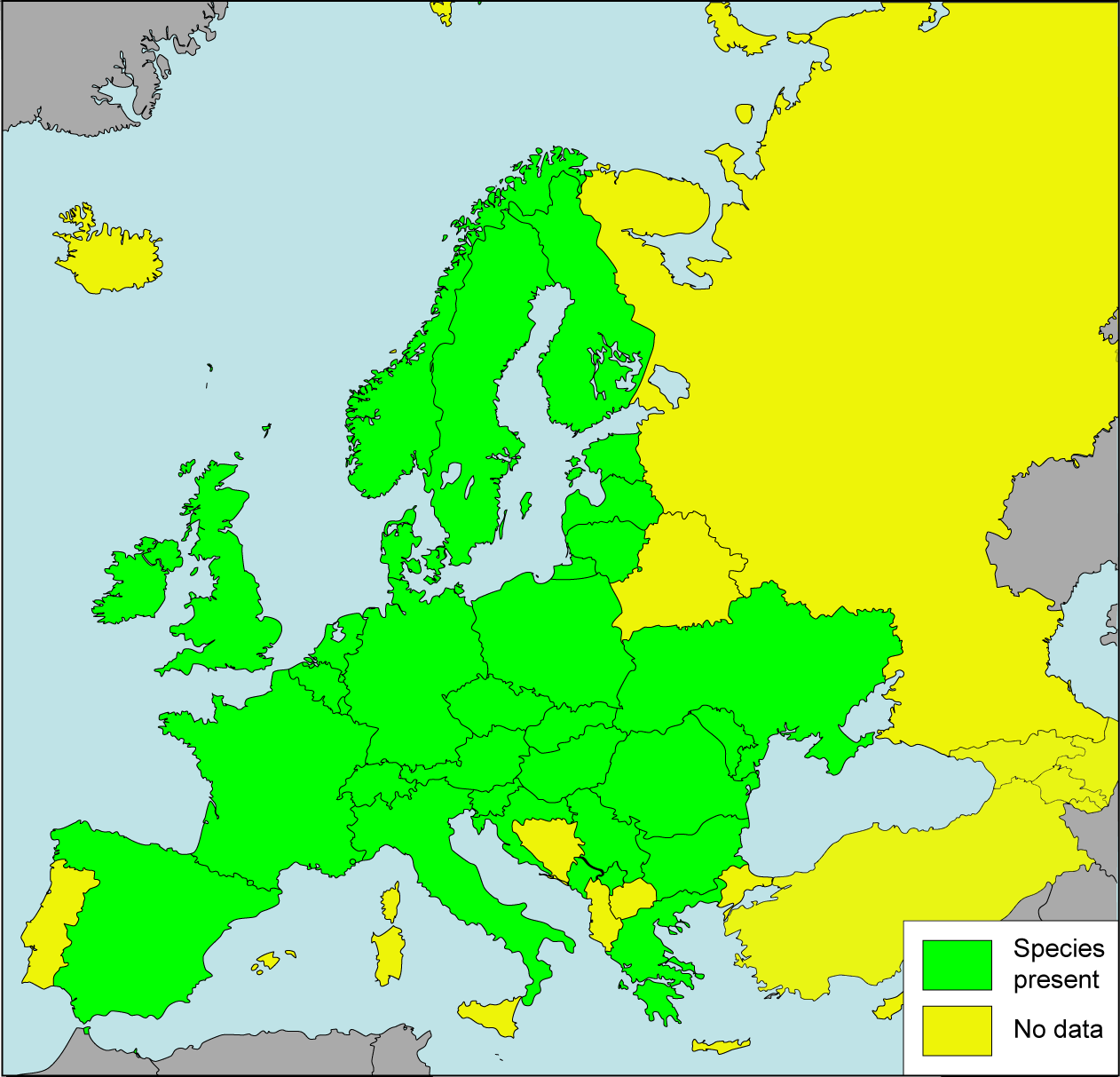 'Carychium tridentatum', land snail species: presence in European countries based upon data from: [1]